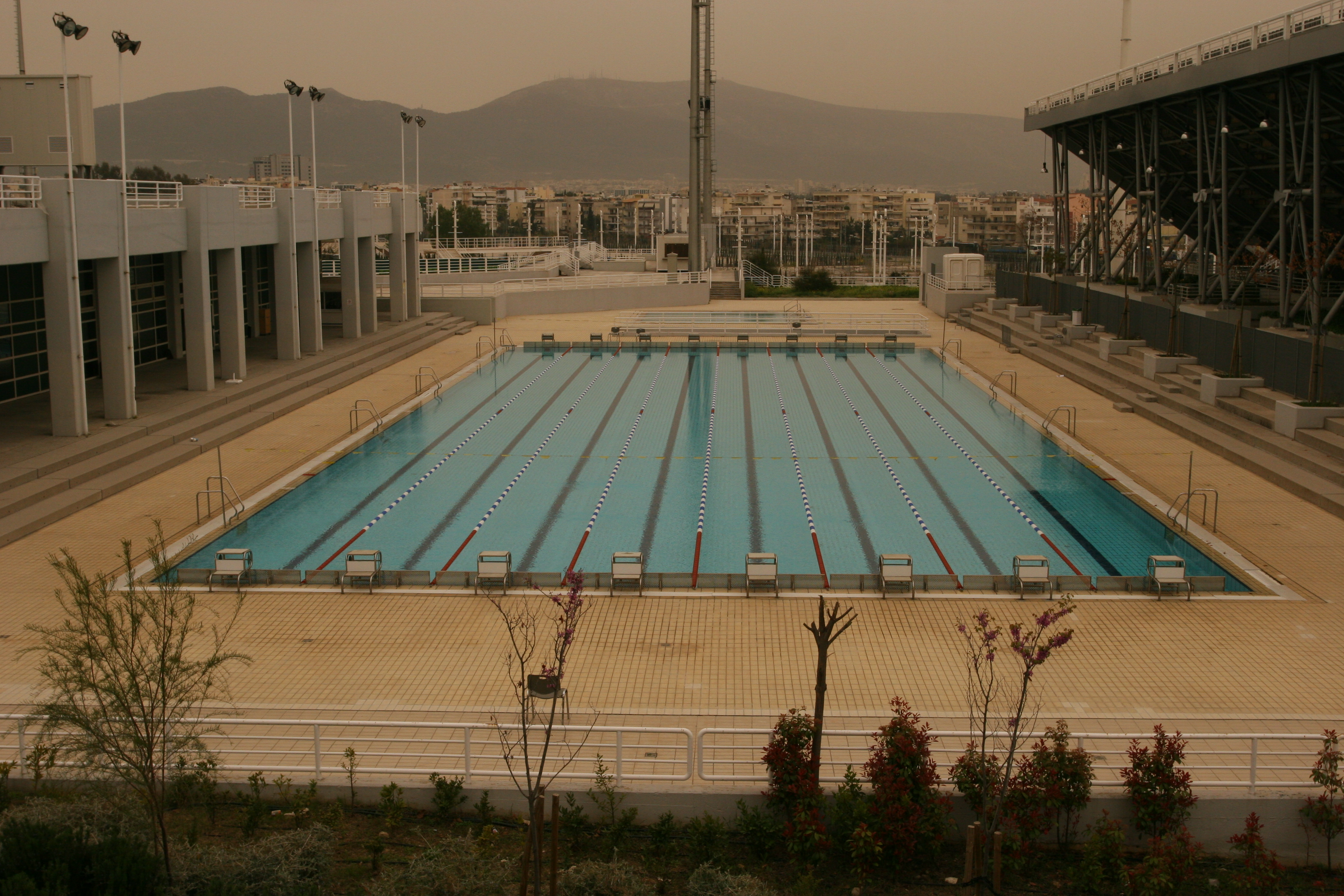 Athena. Olympic pool.